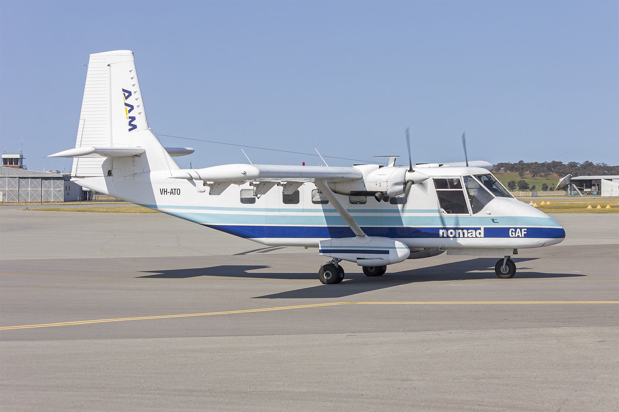 Bayswater Road Aerial Surveys/Australian Aerial Mapping (VH-ATO) GAF N22C Nomad taxiing at Wagga Wagga Airport.